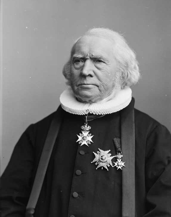 Sven Brun (1812-1894), vicar in Kristiania (Trinity Church perish) from 1858 until his death in 1894. A street in Oslo is named after him.